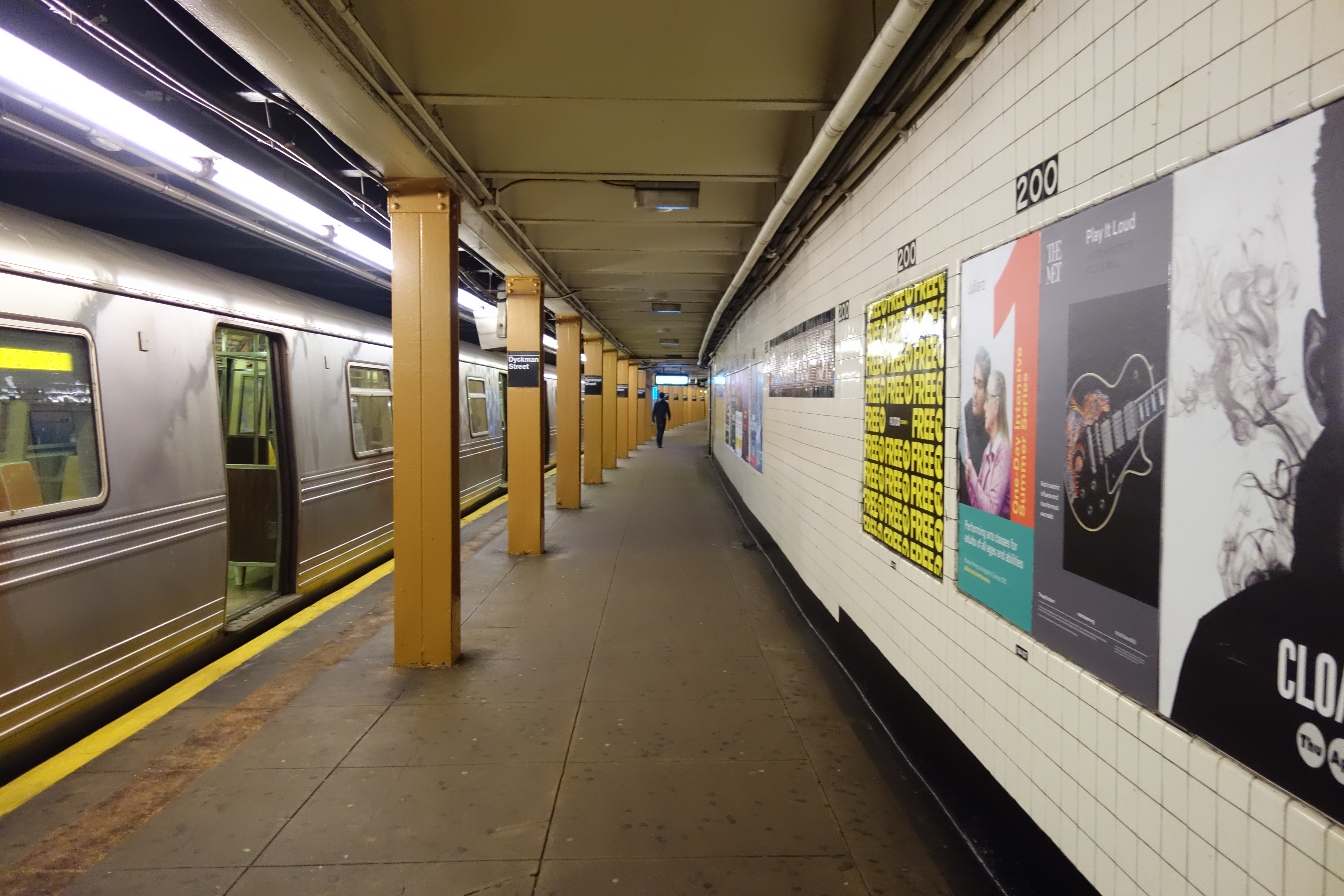 The Uptown platform of the Dyckman Street (Dyckman–200th Street) IND station, under Broadway at Dyckman Street and Riverside Drive in Inwood, Manhattan.